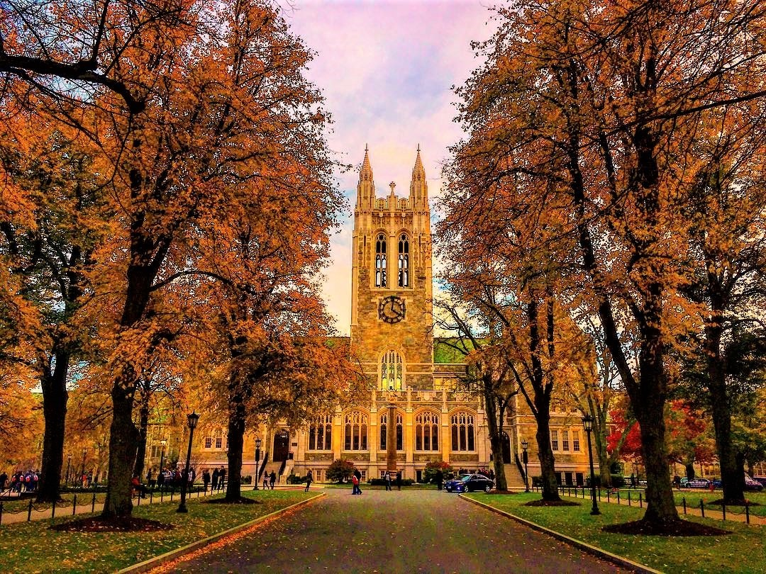 Gasson Hall in Autumn